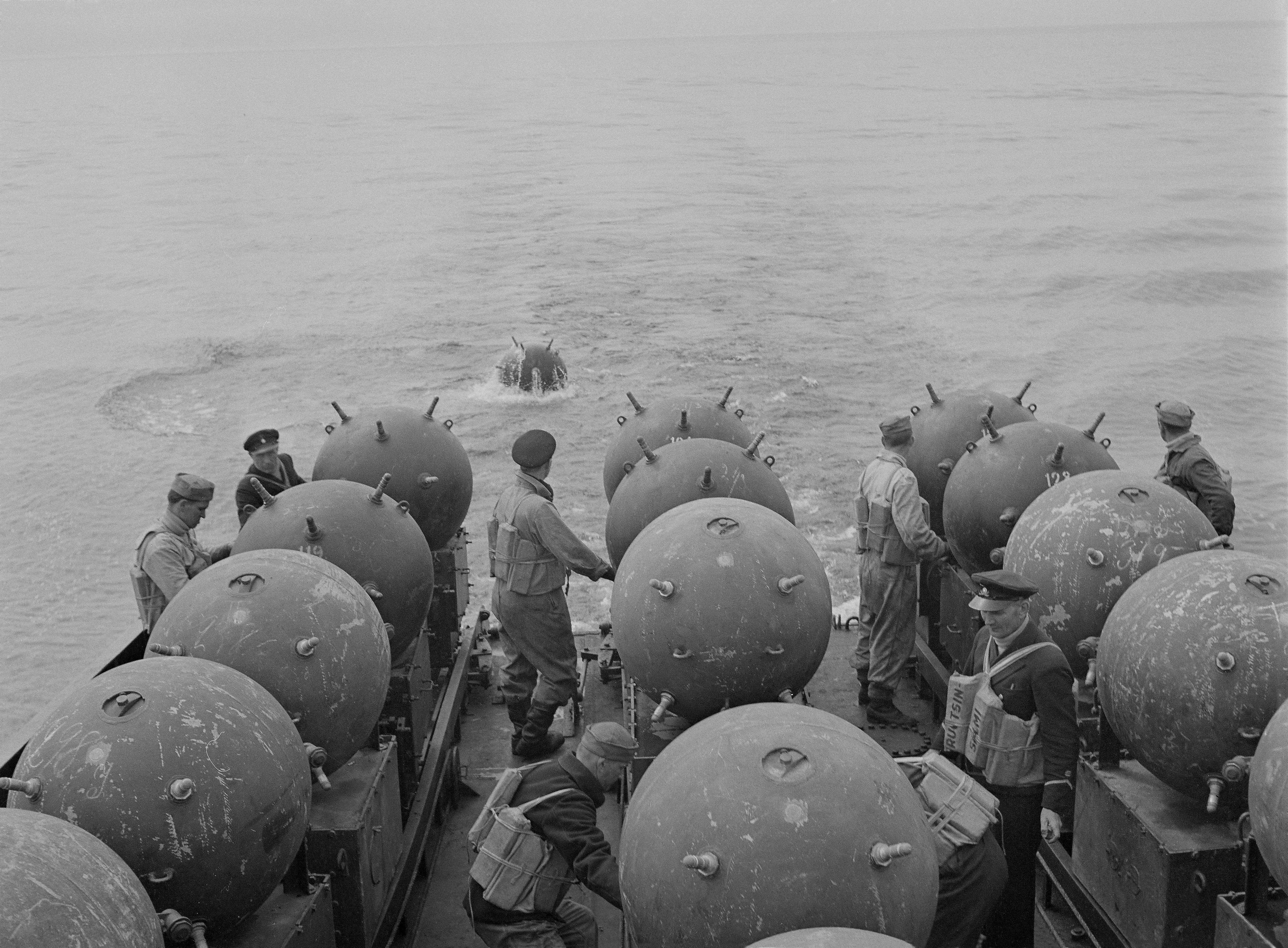 Laying sea mines aboard Finnish minelayer Ruotsinsalmi